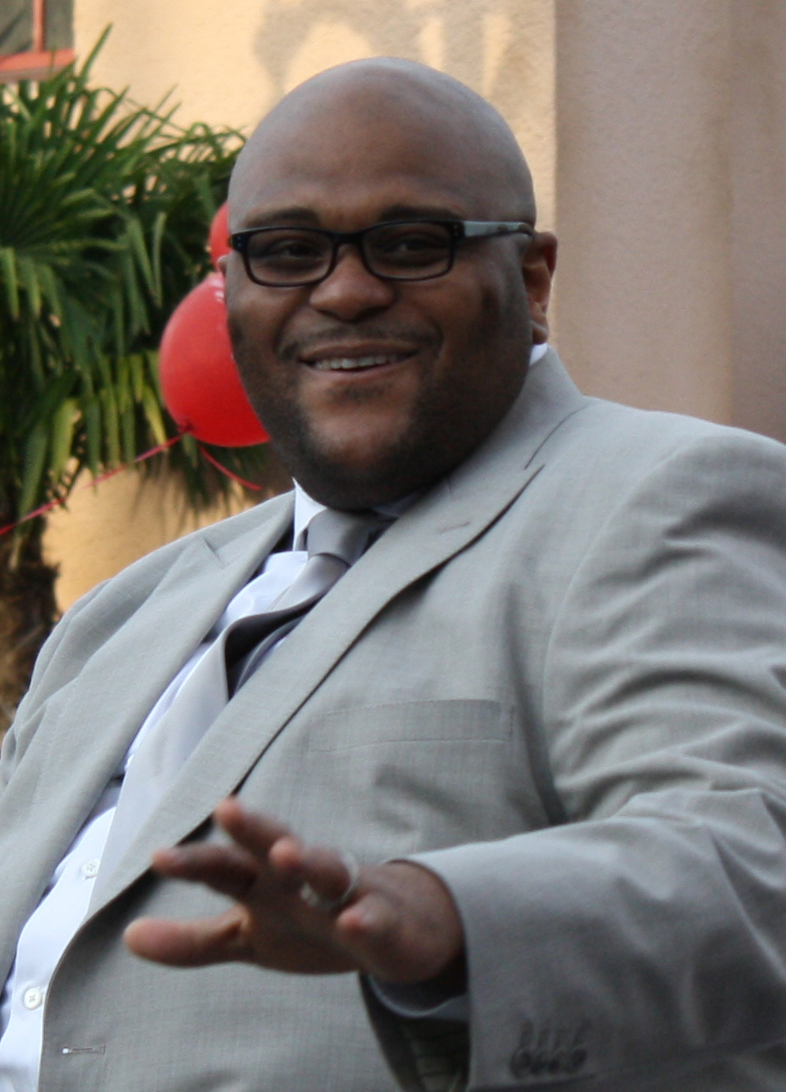 Season two winner of American Idol, Ruben Studdard.